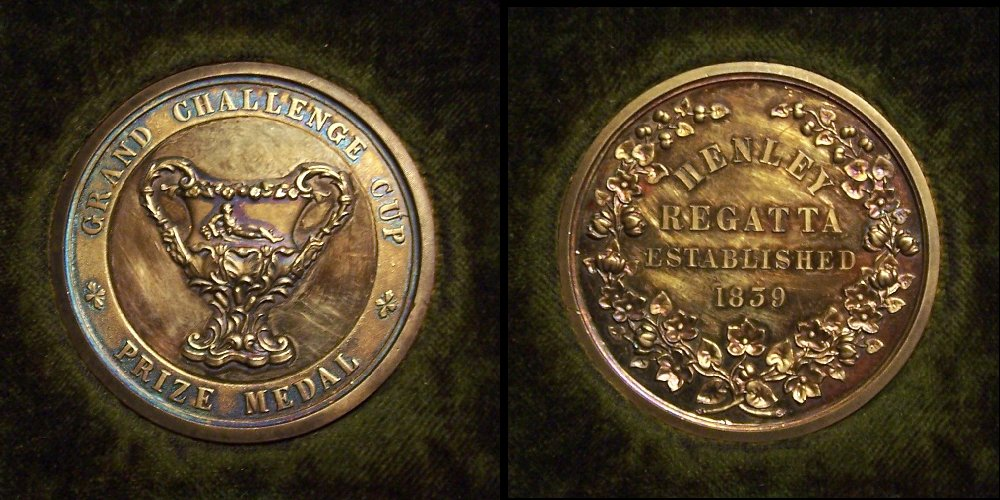 Prize Medal of the Henley Royal Regatta "Grand Challenge Cup", awarded to the 1937 winners. Owned by Christopher Kern (Albion).